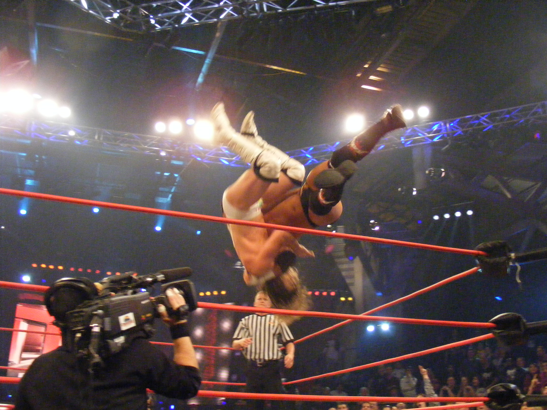 Frankie Kazarian hits his finisher, The Flux Capacitor on Brian Kendrick during a #1 Contender's match during an Impact taping.